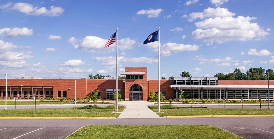 Exterior View of Meadowbrook High School by BCHW